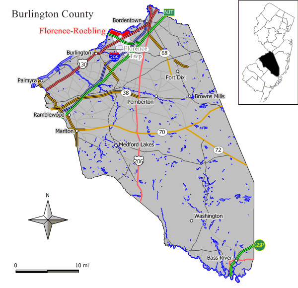 Source: Jim Irwin Original work by Jim Irwin, December 2005.